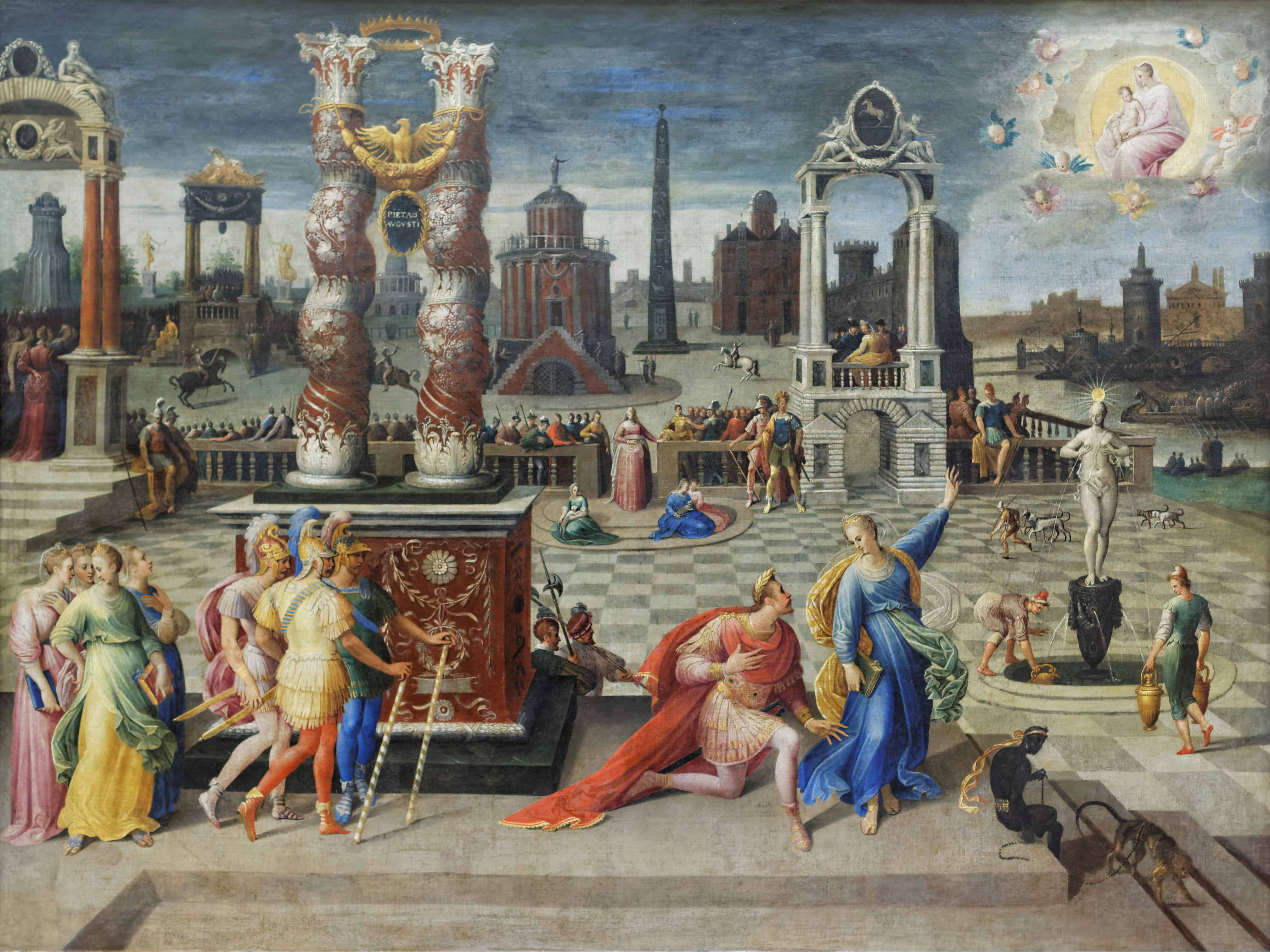 The Sibyl shows to Roman Emperor Augustus, kneeling before her, the appearance of the Virgin holding the Child that the Roman people would now worship.